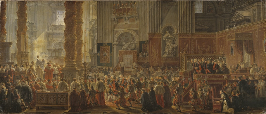 Gustav III attends Christmas Mass in St. Peter's Basilica in Rome in 1783.